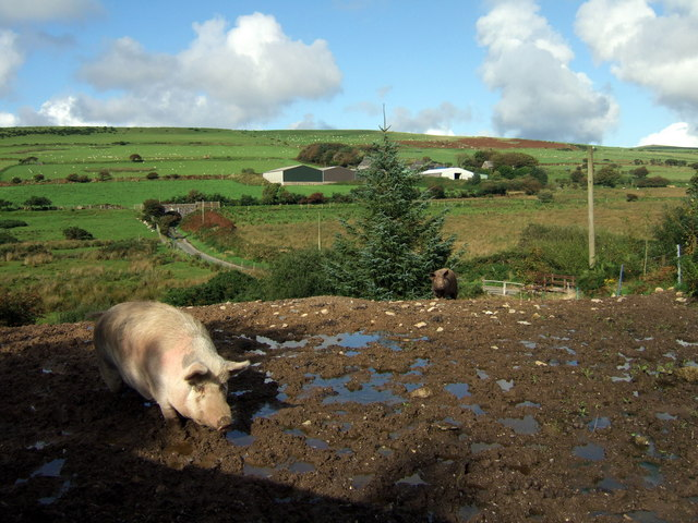 Pigs at Morfil Two pigs, up to their knees in mud, have a view of the farm at Morfil over the valley, with the disused church just visible among the trees to the right of it. Beyond rises the sheep-sprinkled Mynydd Morfil.